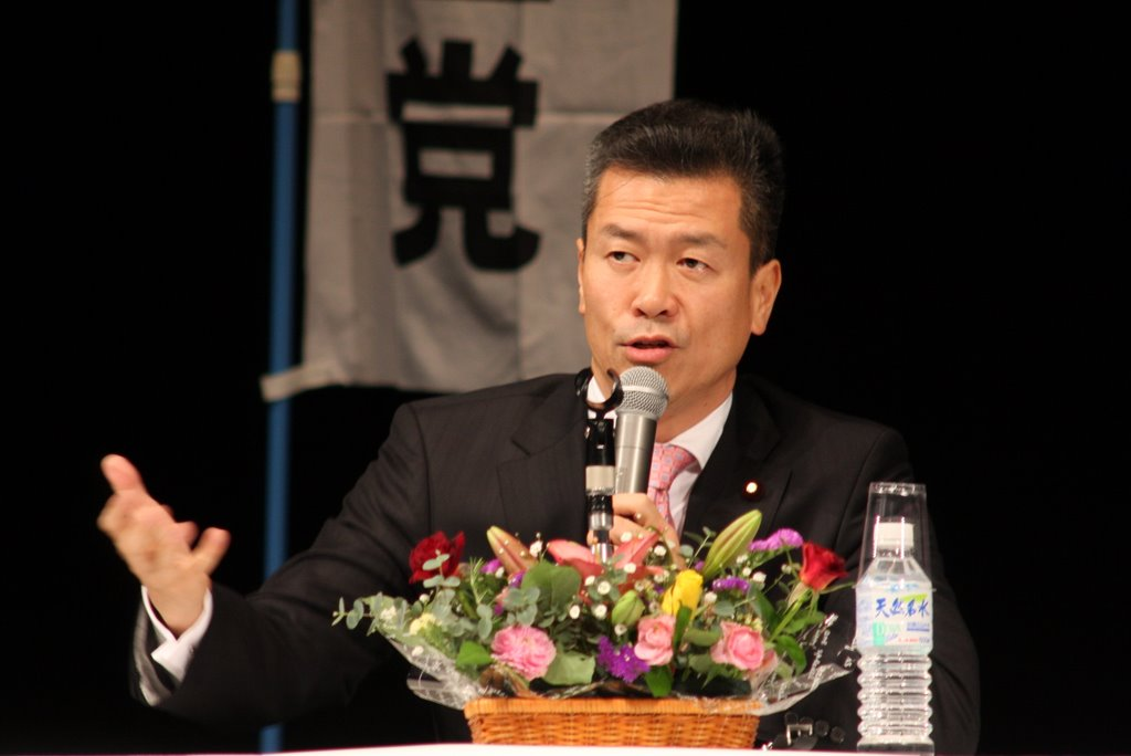 Sumio.Mabuchi